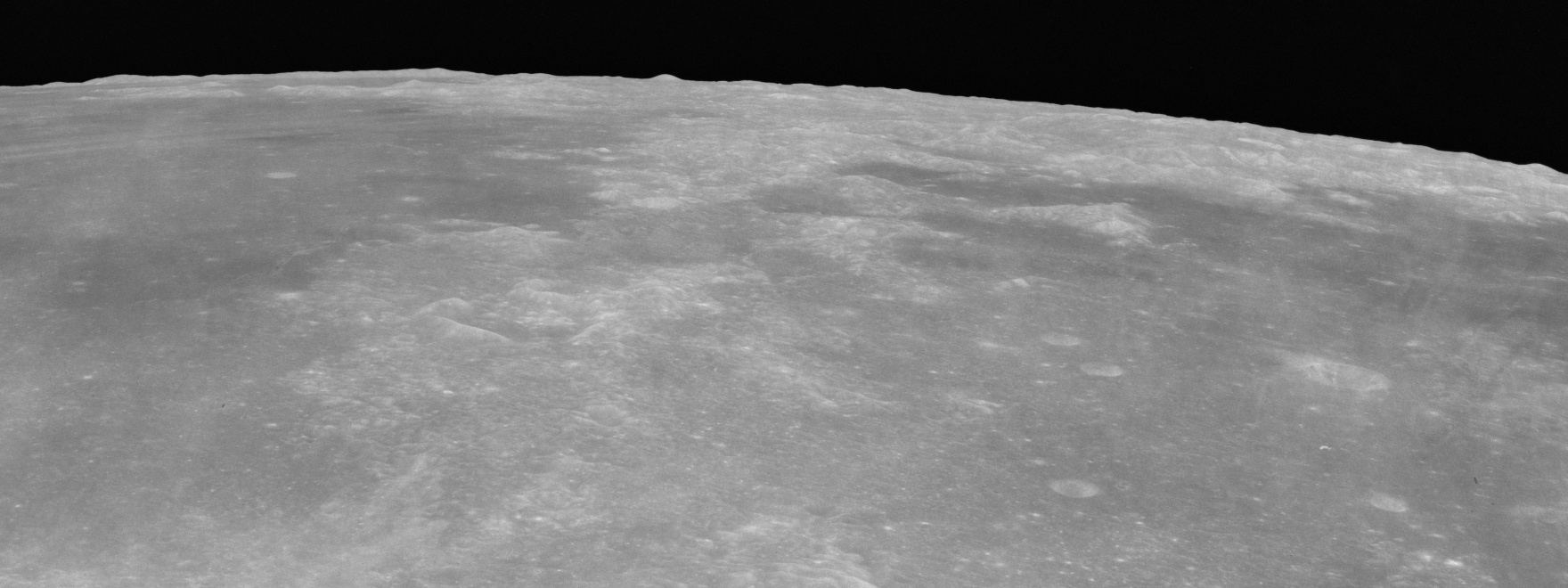 Oblique view of Montes Secchi, on the moon, facing south. The crater Secchi is below left of center, Mare Fecunditatis is at left, and Mare Tranquillitatis is at right. Spacecraft altitude is 112 km and sun elevation is 78 degrees.